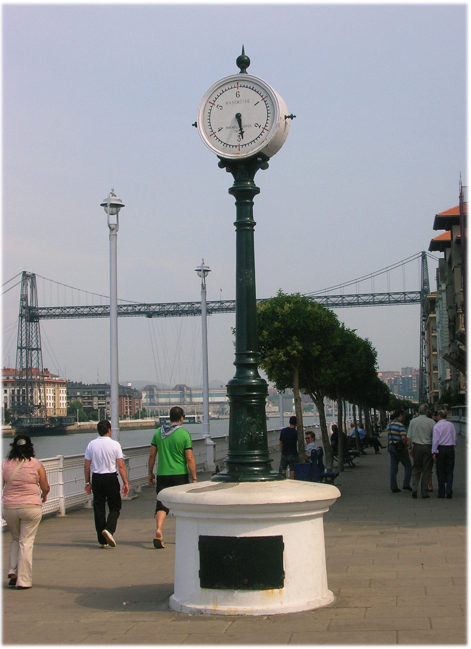 Tide-meter and Transporter Bridge in Portugalete.